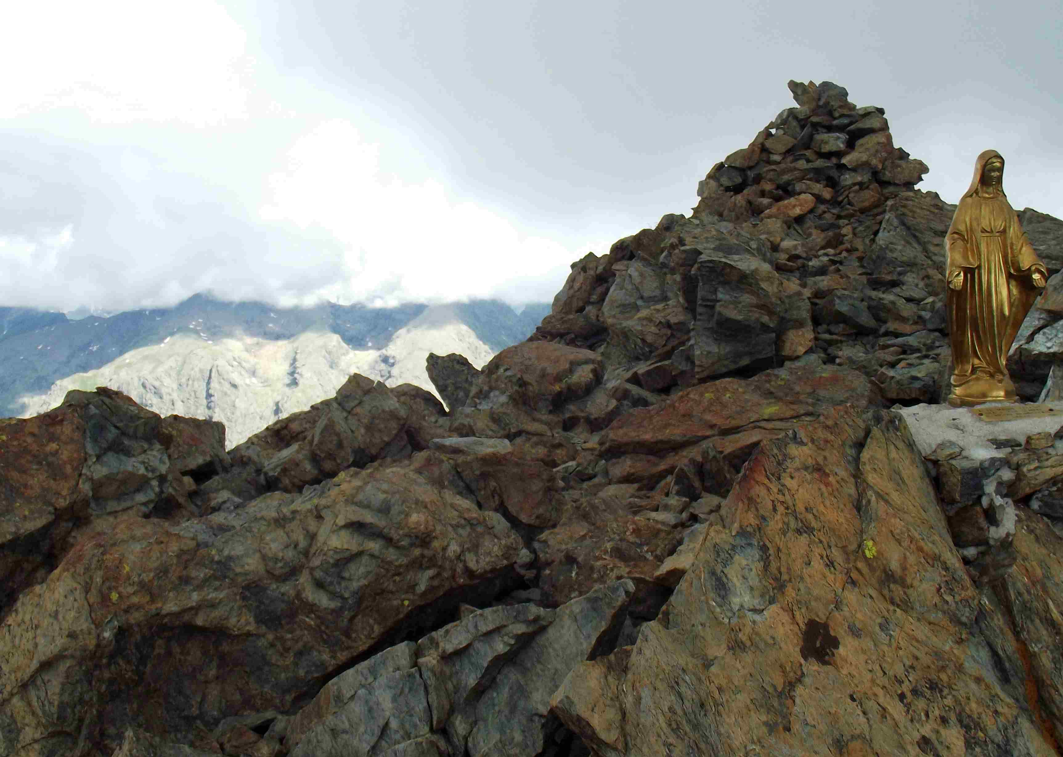 Punta Golai (TO, Italy, Graian Alps): cairn and Madonna's statue on the top